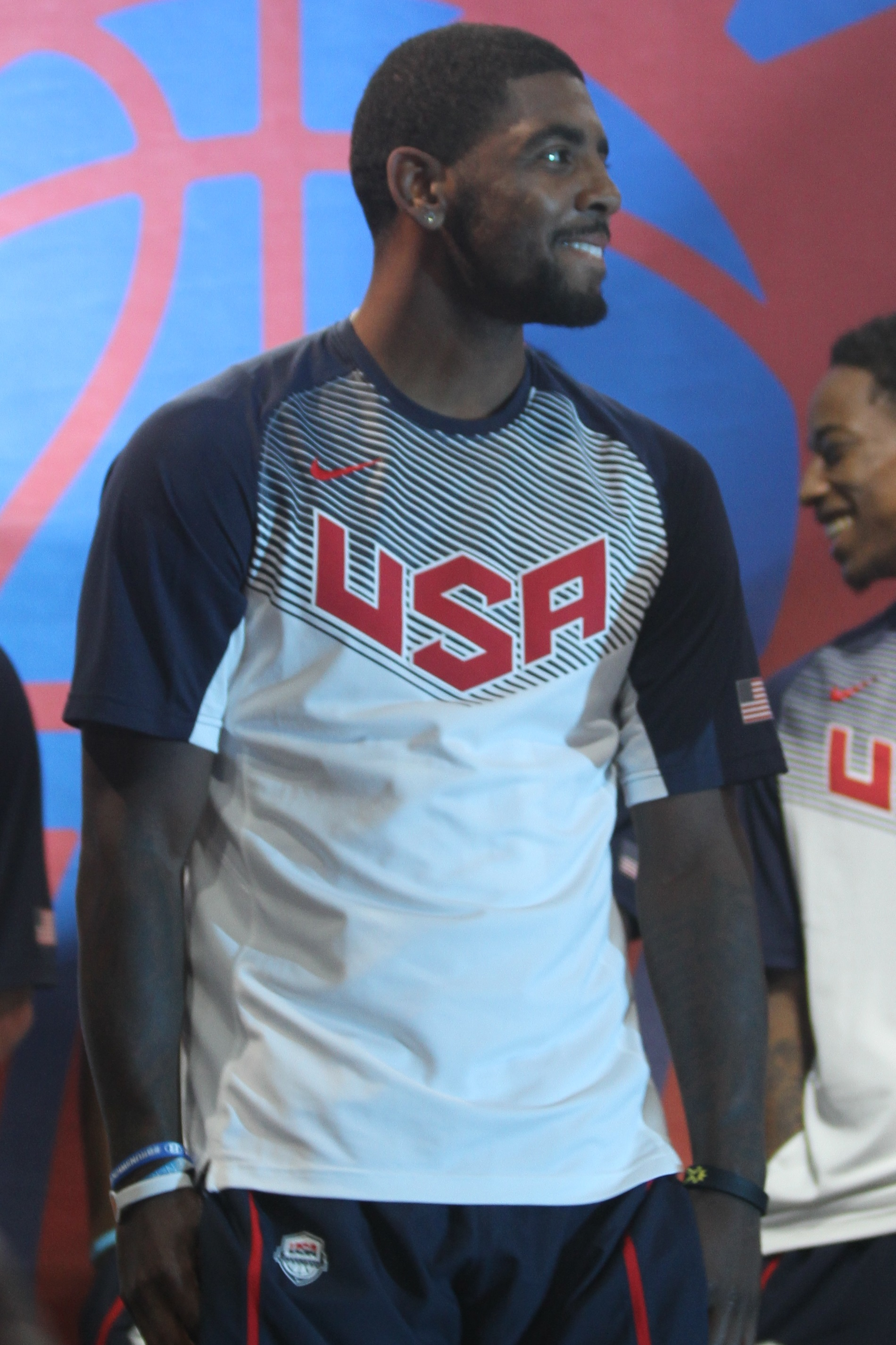 Kyrie Irving at 2014 World Basketball Festival at 63rd Street Beach in Chicago